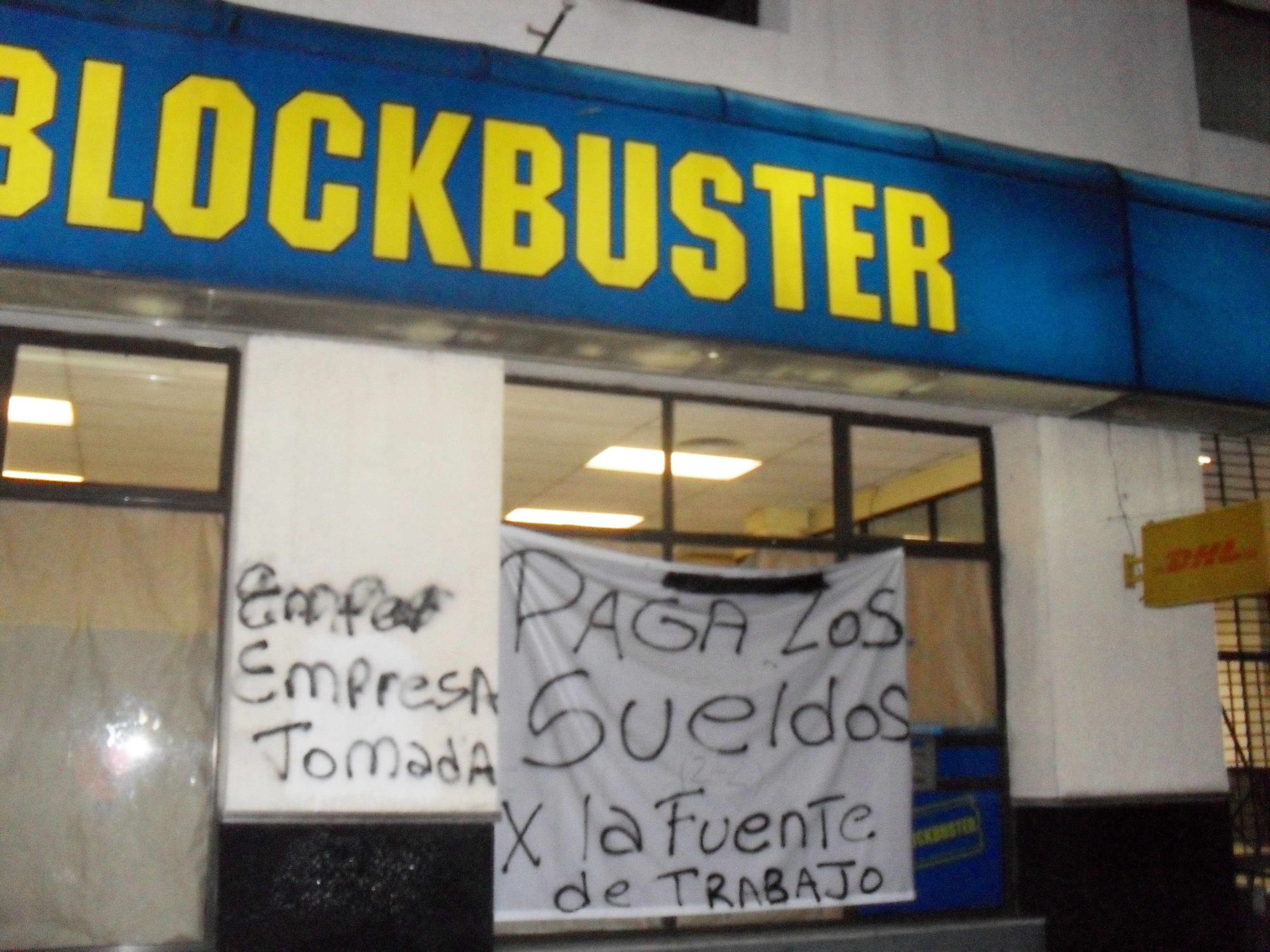 Front of Blockbuster with parade containing the following message: "Company taken" and "pay the salaries for the work". This picture is located in the blockbuster at Lanús, Buenos Aires, Argentina.